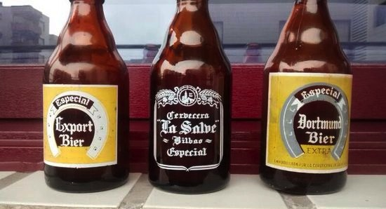 La Salve beer antique bottles